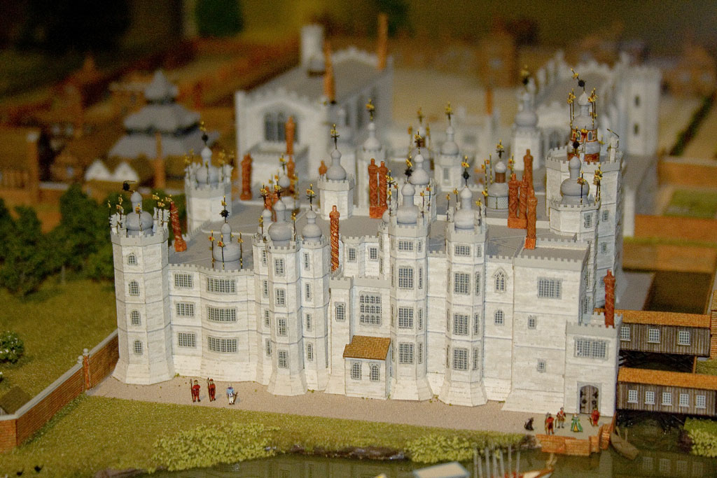 A model of the royal apartments of Richmond Palace.